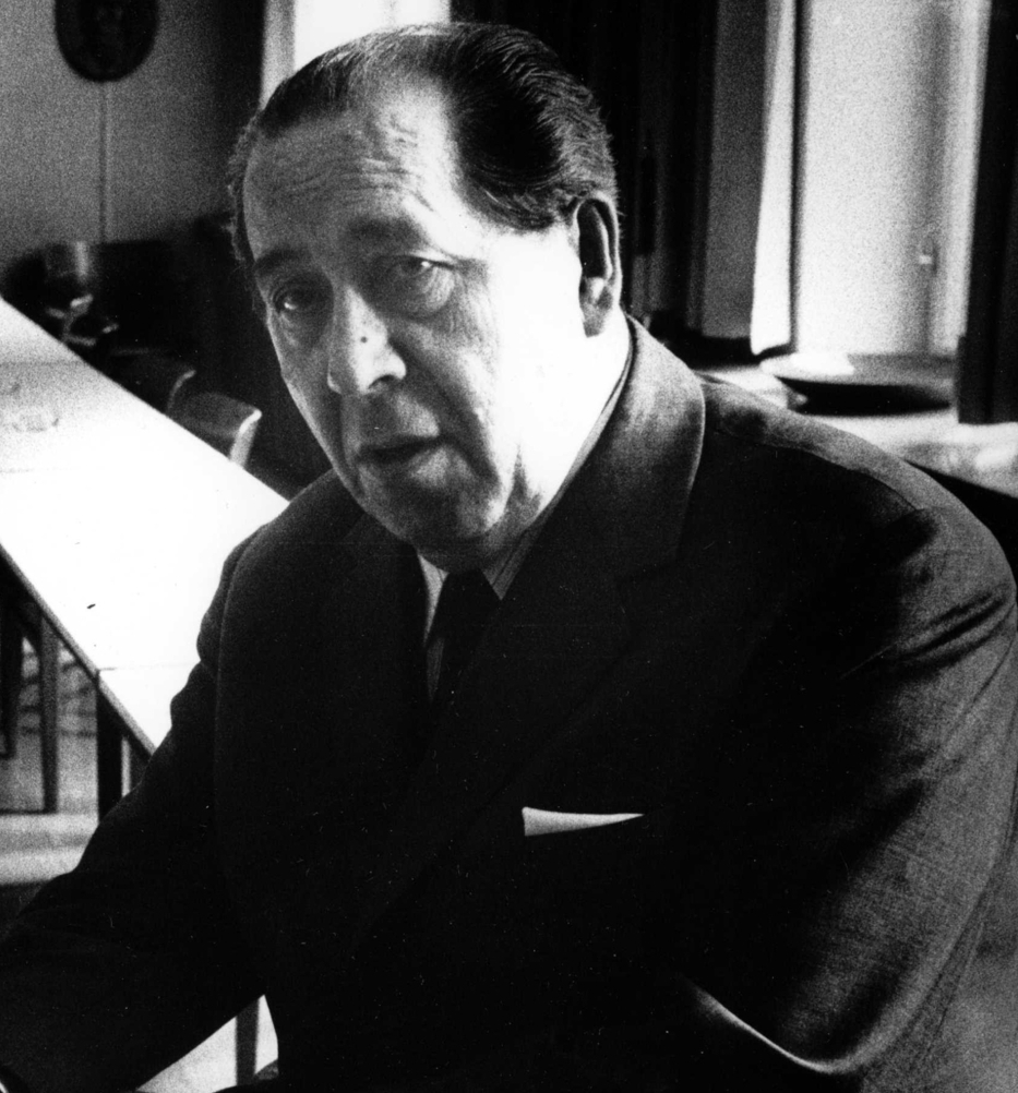 Photograph of the Finnish politician Rafael Paasio (1903–1980).